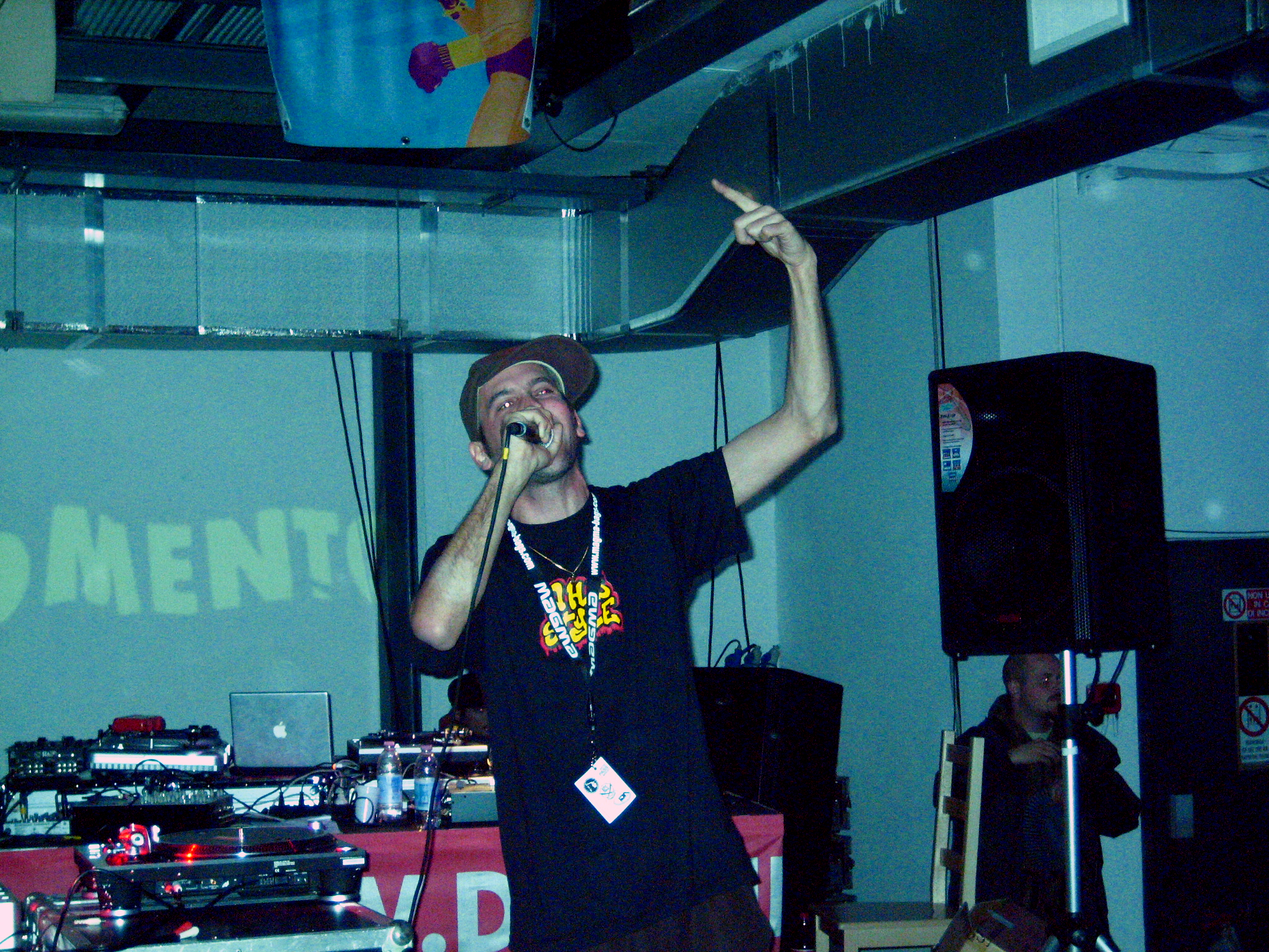 The italian rapper Danno